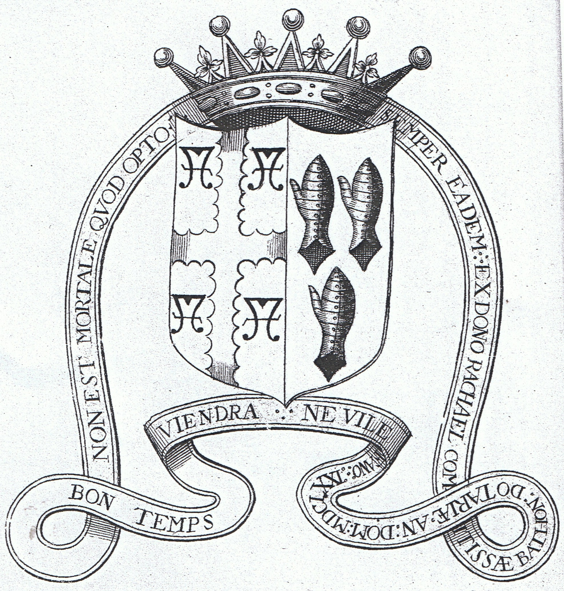 reproduction of a large bookplate made in the third quarter of seventeenth century. Showing arms of Bourchier impaling Fane for Rachel, Dowager Countess of Bath, widow of 5th and last of the Bourchier Earls of Bath.Rodolph (talk) 22:04, 25 November 2009 (UTC)